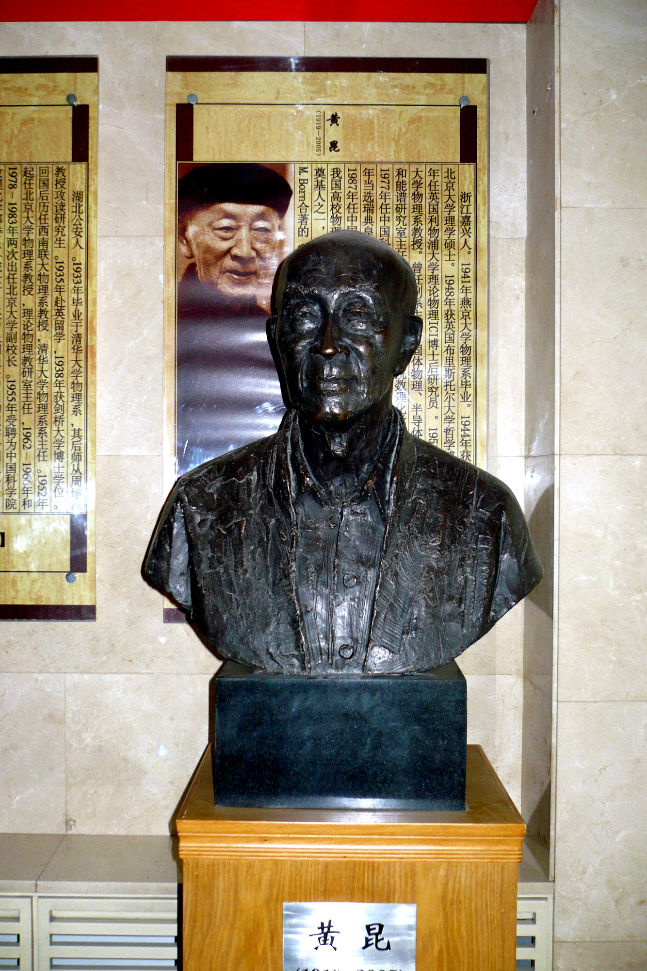 Bronze bust of professor Huang Kun at permanent display at the Physics Department, Peking U